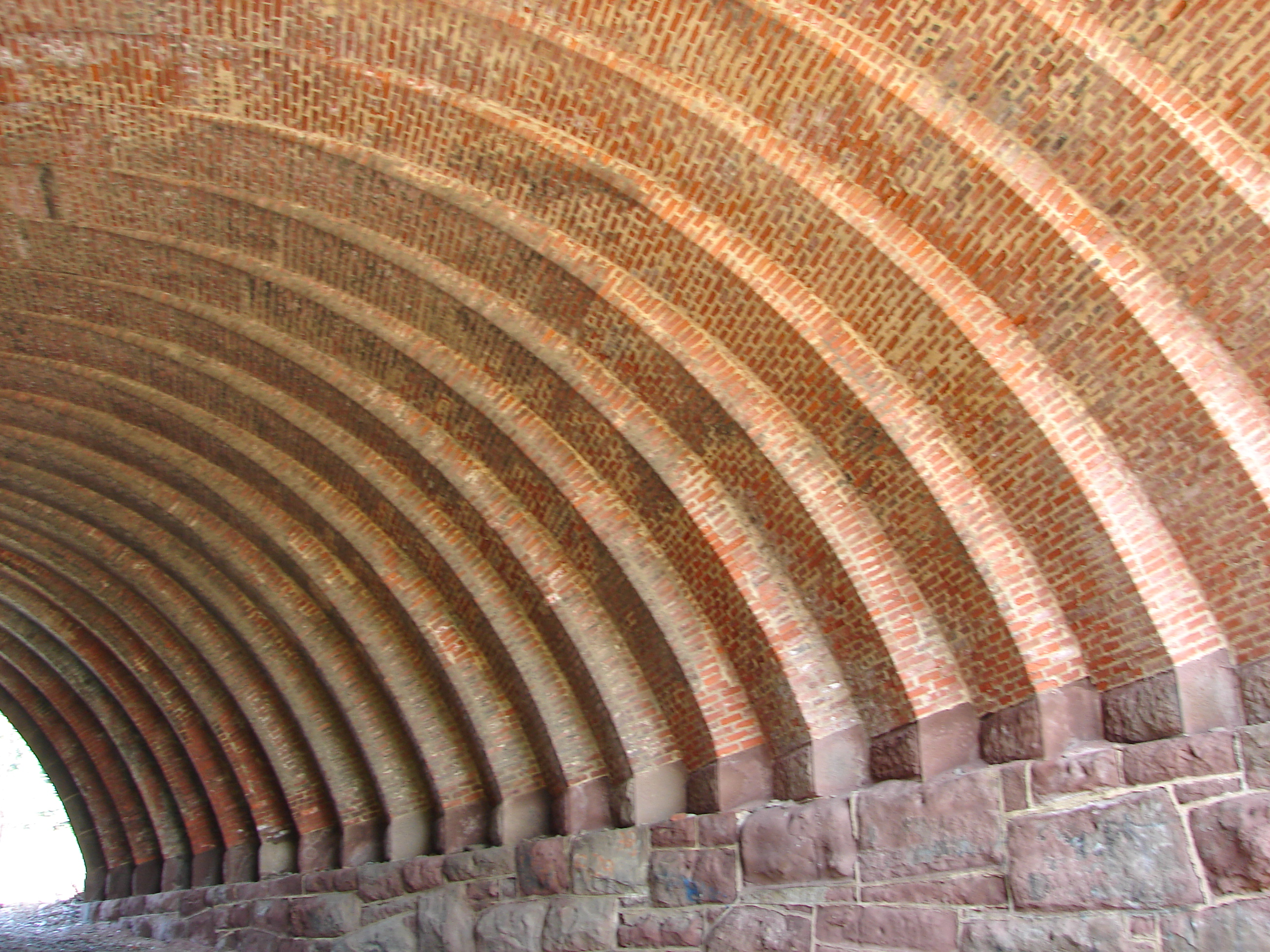 Interior of 33rd Street Bridge in Philadelphia. On NRHP in North Philly